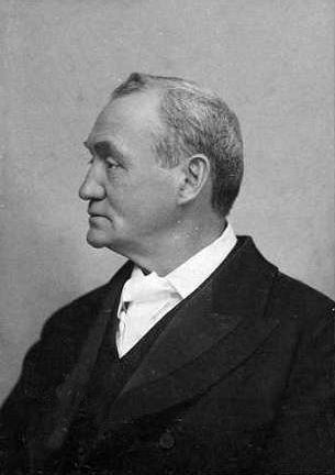 Actor Playwright James A. Herne